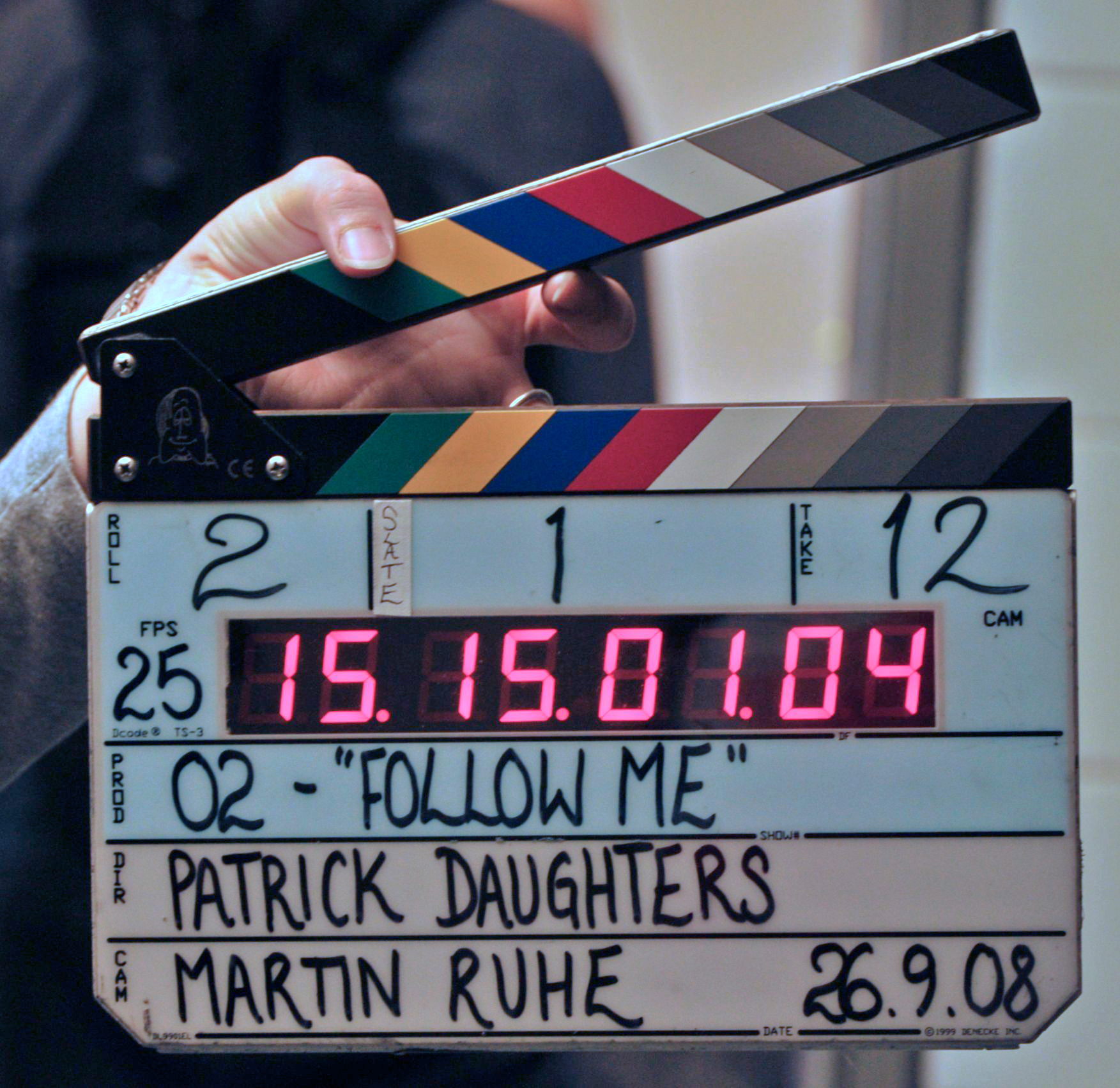 A Denecke TS-3 clapperboard in use during the shooting of a film for O2.